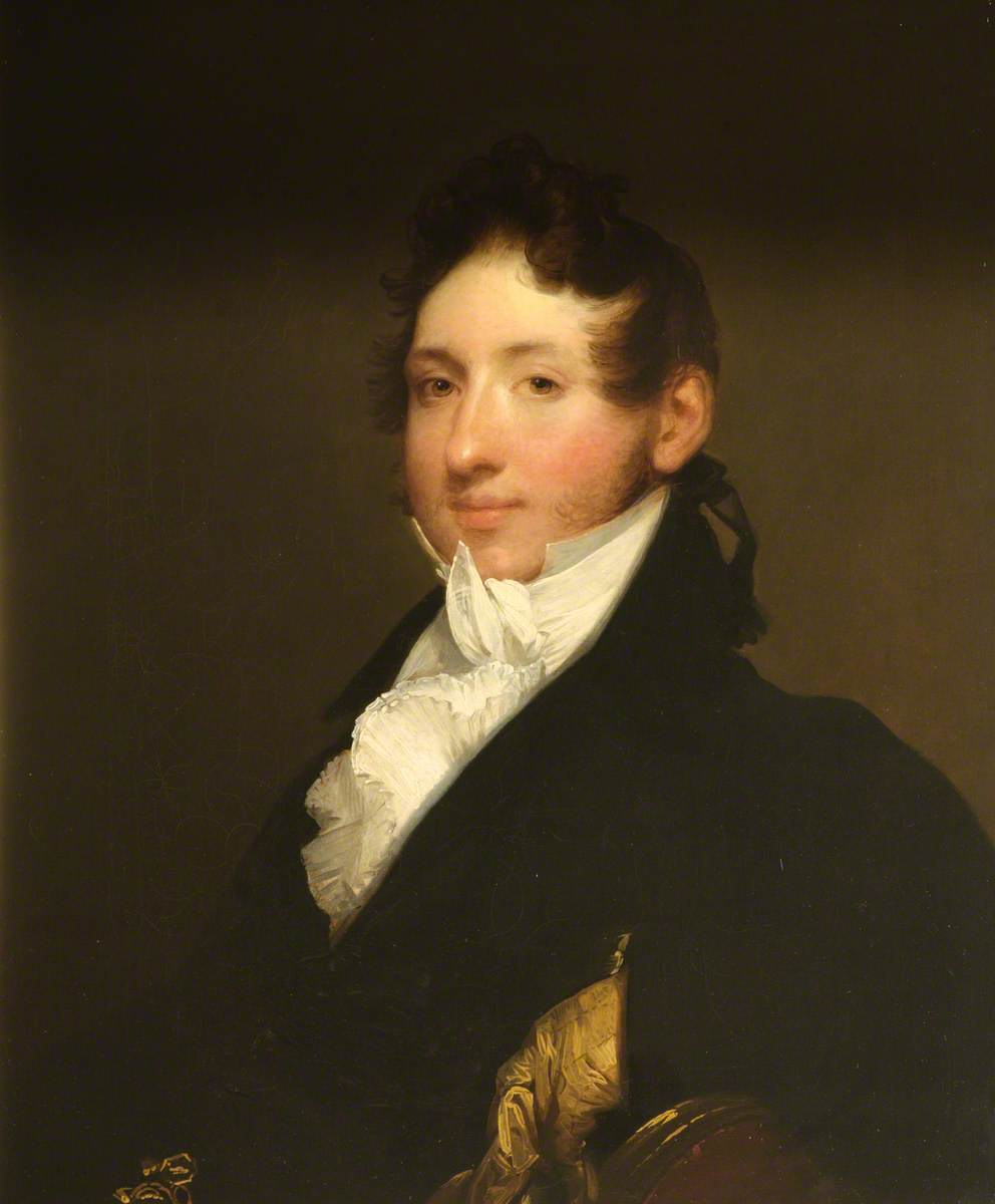 Sir Arthur Forbes (1784-1823, succeeded in 1816), 6th Baronet of Craigievar, half-length in black coat, leaning his gloved left hand on the back of a chair, with white frilled shirt & high collar.